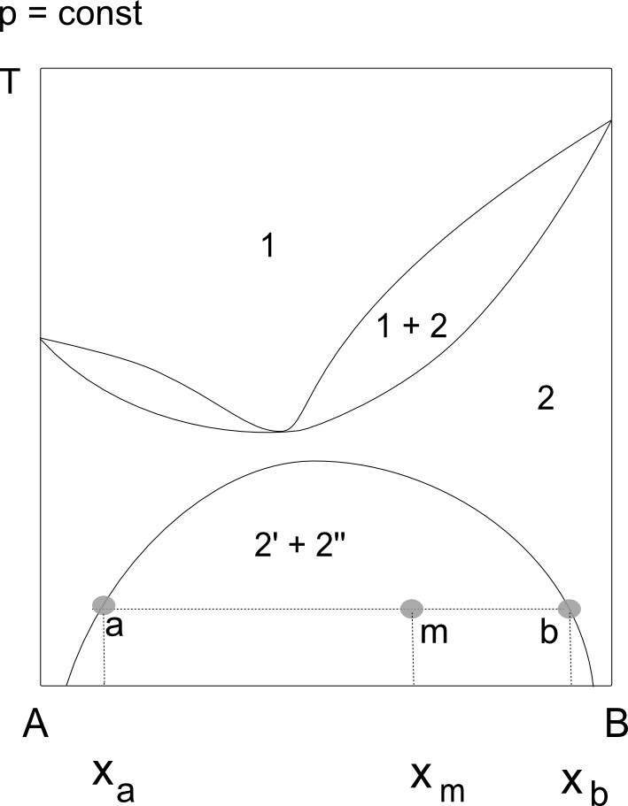 Phase diagrams/ liquid-liquid equilibrium 3